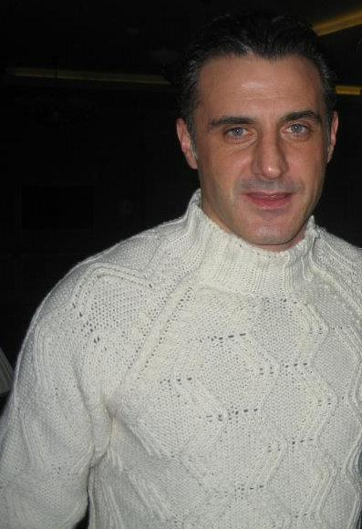 Tayfur Havutçu, a former Turkish international footballer and manager.